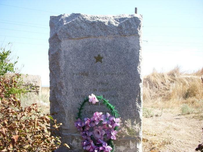 Monument to the Liberation of Chonhar in Chernihivka, Kherson Oblast, Ukraine